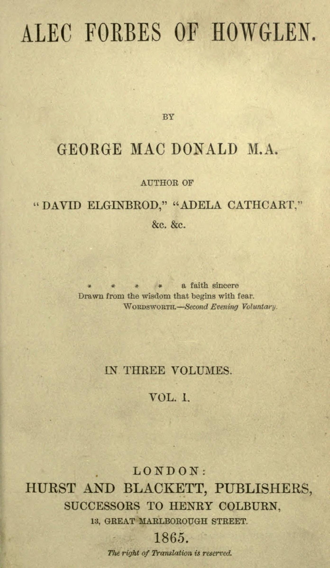 Alec Forbes of Howglen 1st ed title pg